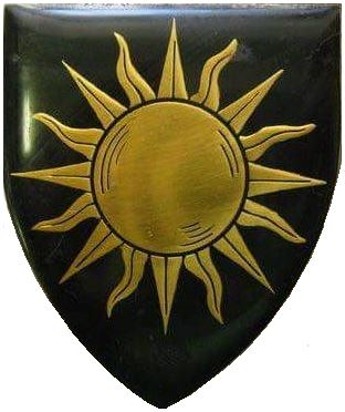 SADF era Zastron Commando emblem